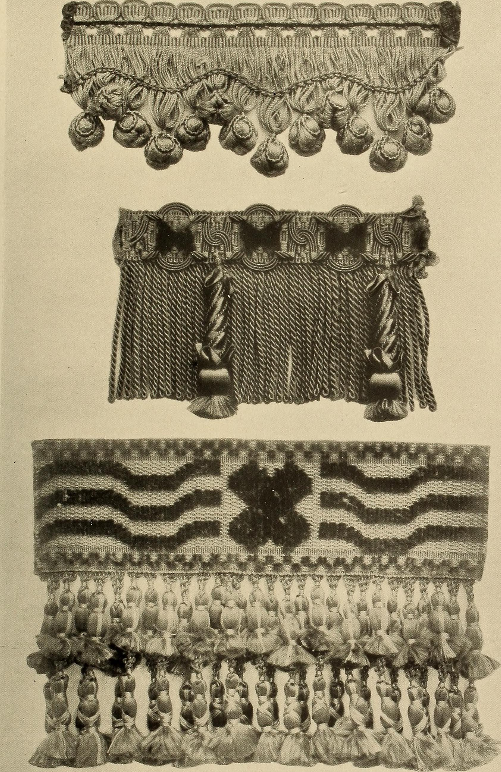 Title: Decorative textiles; an illustrated book on coverings for furniture, walls and floors, including damasks, brocades and velvets, tapestries, laces, embroideries, chintzes, cretonnes, drapery and furniture trimmings, wall papers, carpets and rugs, tooled and illuminated leathers Year: 1918 (1910s) Authors: Hunter, George Leland, 1867-1927 Subjects: Embroidery Tapestry Textile fabrics Lace and lace making Wallpaper Decoration and ornament Publisher: Philadelphia and London, J. B. Lippincott company Grand Rapids, The Dean-Hicks company Text Appearing Before Image: een extraordinary. The improvement indesigns has also been extraordinary, and has been accompanied byequal improvement in processes of manufacture, especially in dye-ing and matching colours. The rampant tassels and fringes that oncewere admired as rich and elegant, have long since been removed fromthe sample lines and are illustrated on Plates IX and X merely toshow from what depths we have risen. The most numerous ancient trimmings that have survived arethose made in Egypt from the third to the tenth centuries, and calledCoptic, from the native name of the country. These Coptic trimmingsare borders and galloons, mostly figured in tapestry weave, made forapplication on garments, or woven as an integral part of them. Someof the garments are self-fringed and others have tapestry panelsframed in bands of long loops of linen wefts, which look more likemultiple bullion fringes than like the uncut velvet which they reallyare. Similar tapestry borders and galloons were also made in Amer-394 Text Appearing After Image: ■ Plate I—FRINGES DE LUXE395 *^&%m